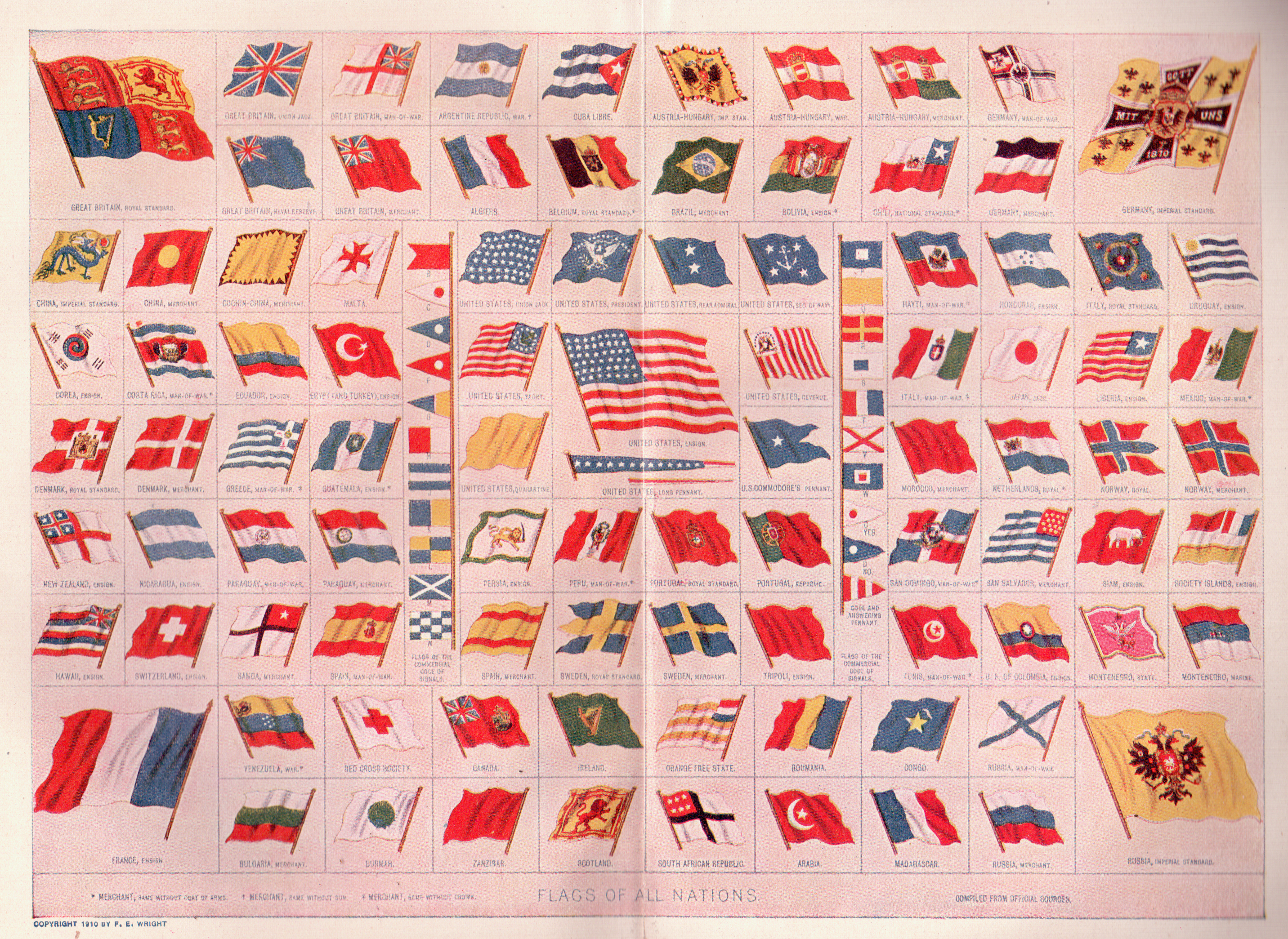 "Flags of All Nations", copyright of 1910 by F.E. Wright. This color illustration is from Webster’s New Illustrated Dictionary Based on Noah Webster’s dictionary, revised and edited by Edward T. Roe and Charles Leonard-Stuart. The book was published by Syndicate Publishing Company of New York in 1911. Flickr data on 2011-08-17: Tags: 1911, book, color, colored illustrations, copyright free, creative commons, dictionary, F.E. Wright License: CC BY 2.0 User: perpetualplum Sue Clark